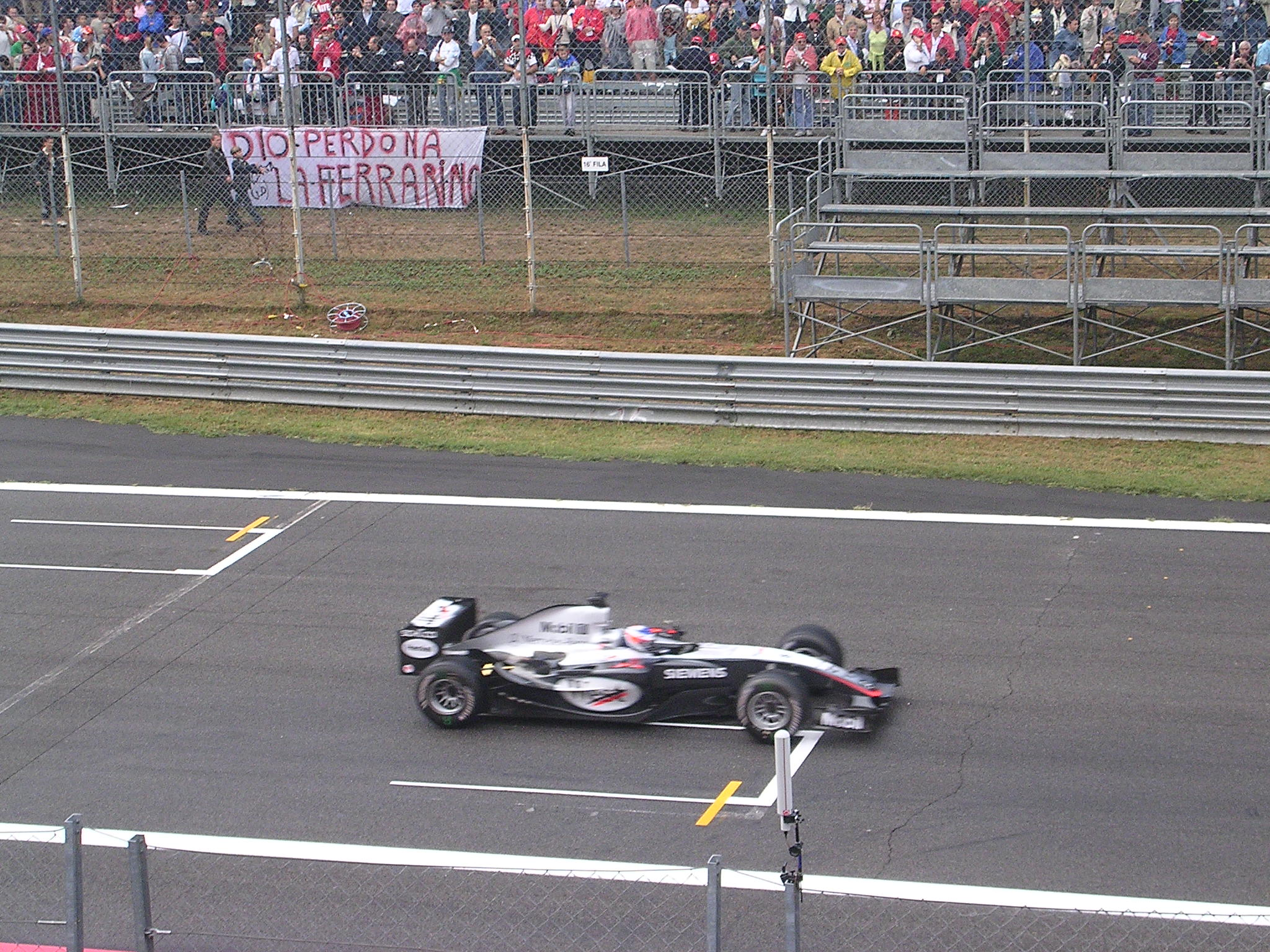 The Autrodomo Nazionale of Monza (italy) during a race in september 2004